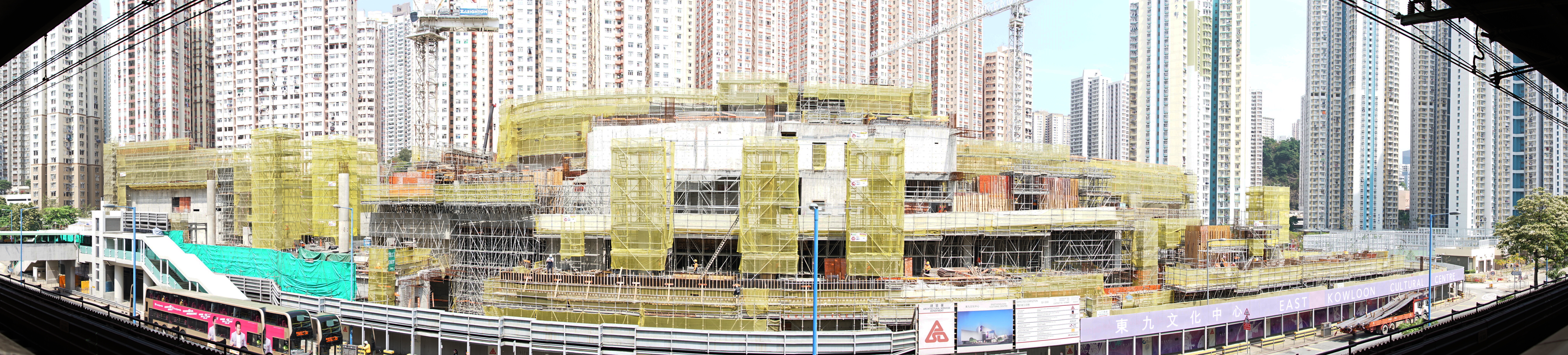 East Kowloon Cultural Centre, Hong Kong.